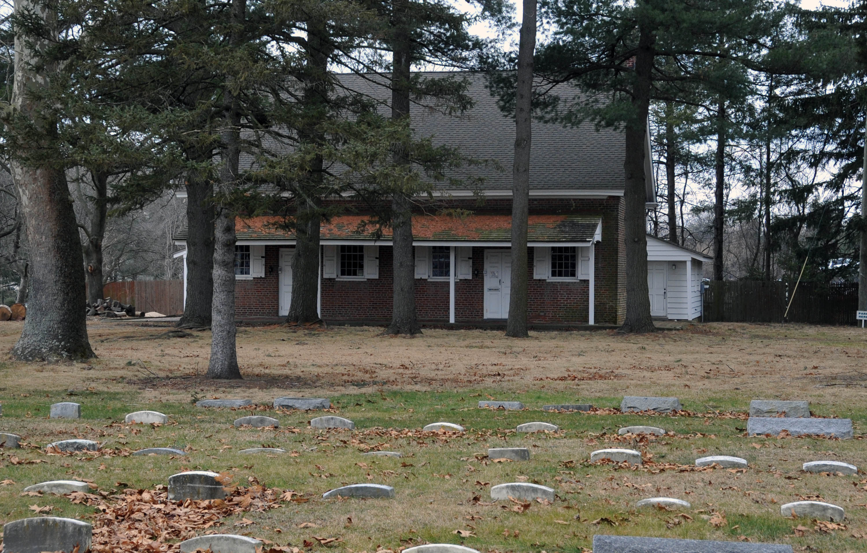 In 1785 Evesham's Quakers bought three acres of land on which to build a school. In 1809 they added a brick meeting house. This is the only tangible, non-residential link to the original colonial Quaker settlements of Evesham township.